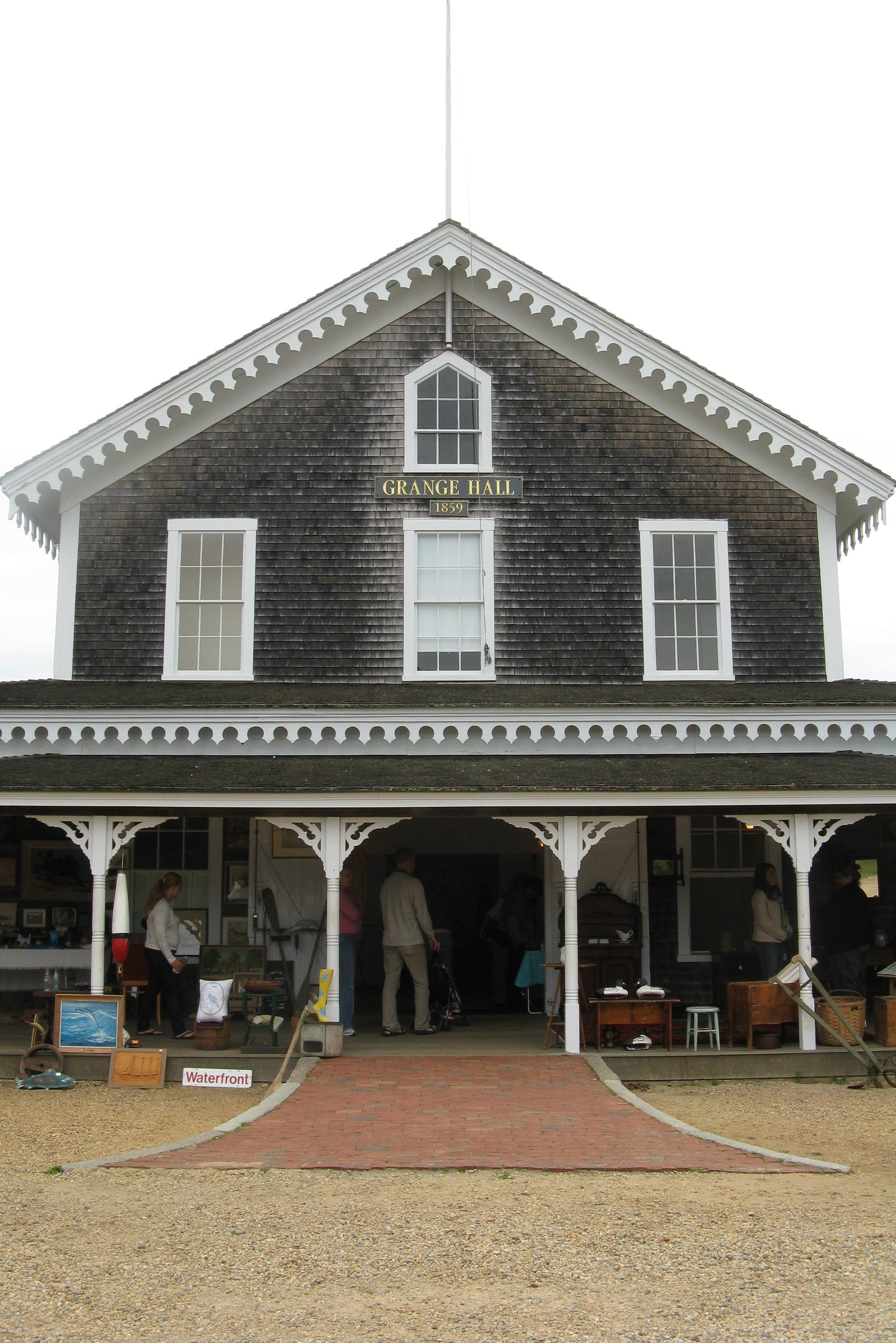 Grange Hall, West Tisbury Massachusetts